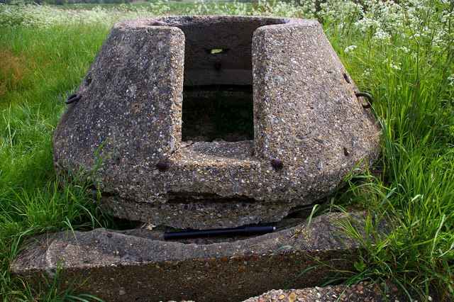 Tett Turret Close up